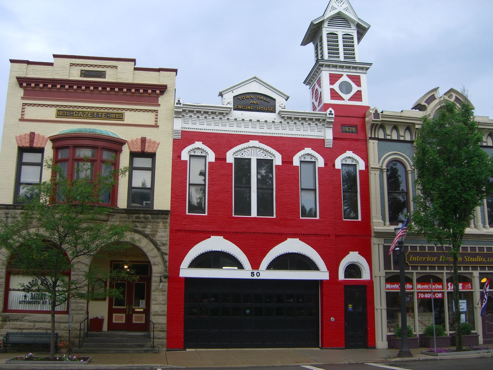 Photo by Nick Juhasz.